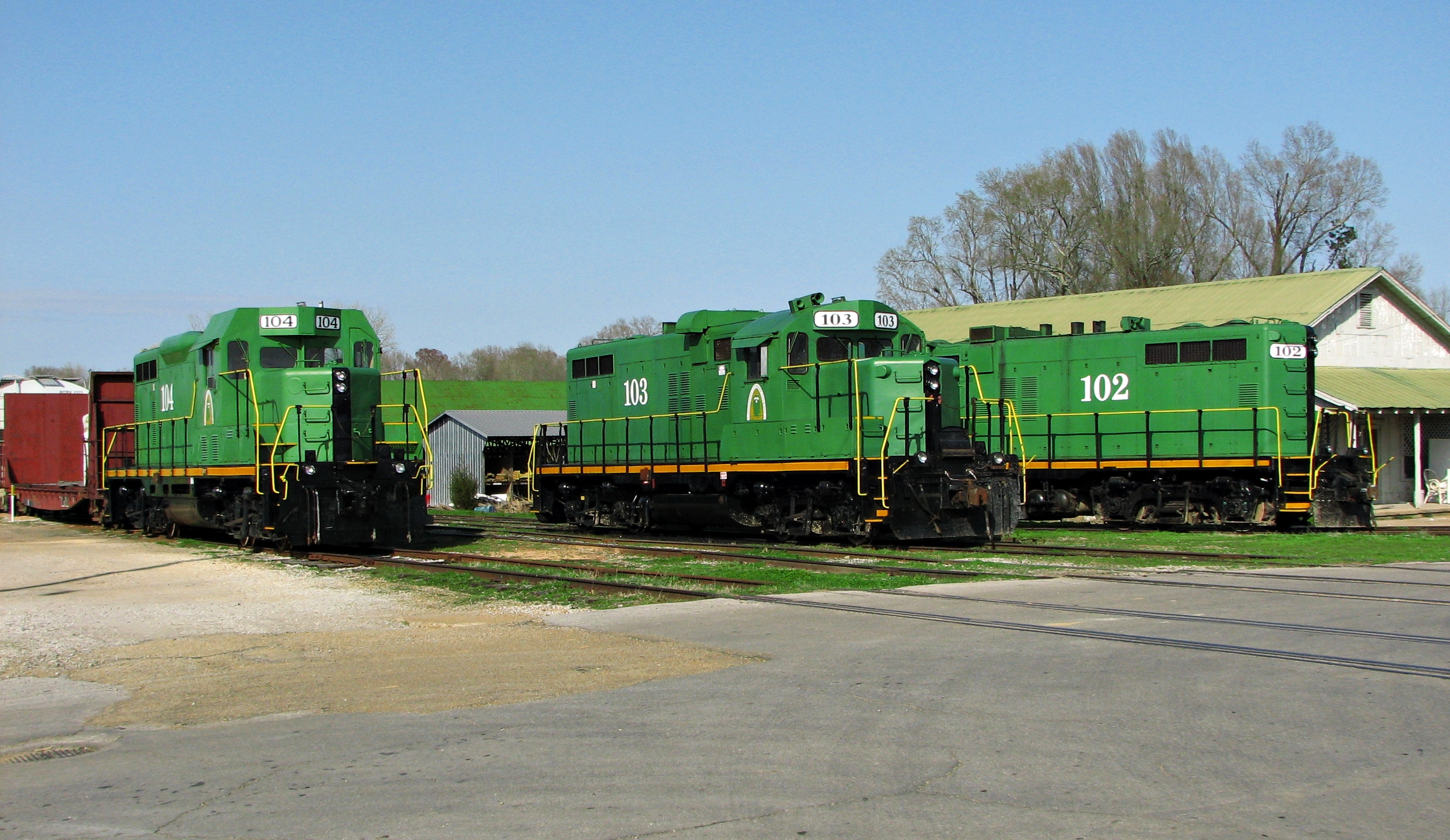 Mississippi Tennessee Railroad's lineup of locomotives at the New Albany yard